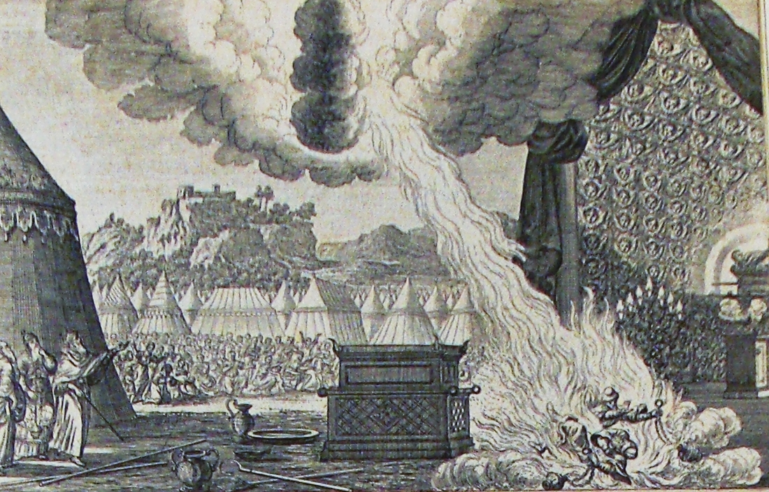 A print from the Phillip Medhurst Collection of Bible illustrations in the possession of Revd. Philip De Vere at St. George’s Court, Kidderminster, England.